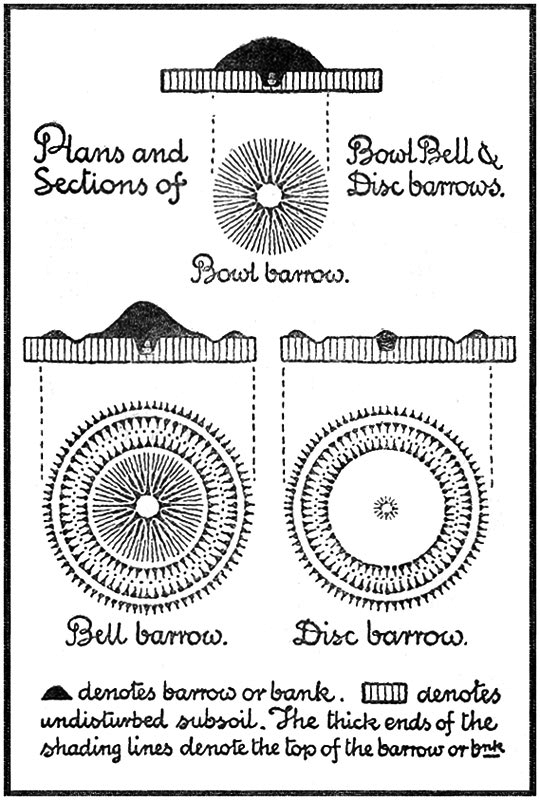 Plans and Sections of Bowl Bell & Disc barrows, illustrated by Heywood Sumner in Frank Stevens' "Stonehenge Today and Yesterday" - contrast improved by JimChampion